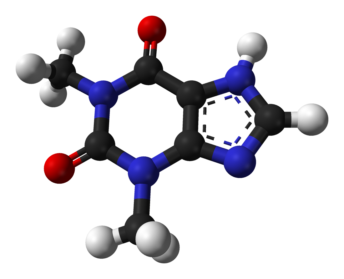 Ball-and-stick model of theophylline, generated in DS Visualizer 1.5